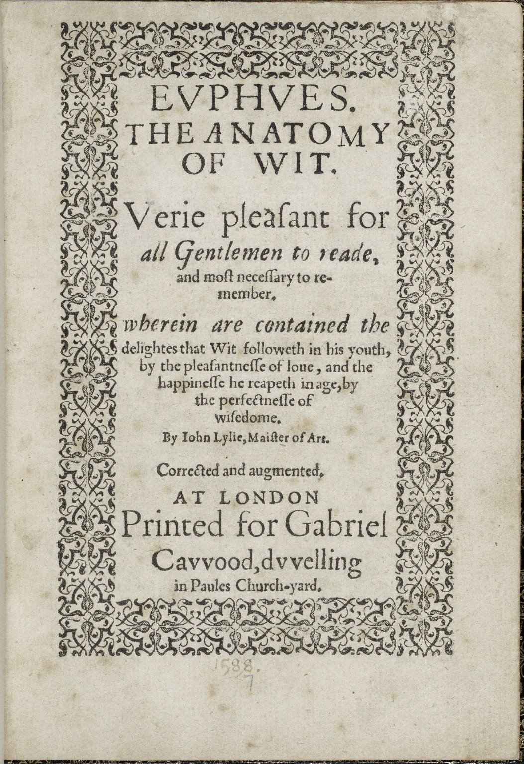 A 1587 printing of Euphues. The anatomy of wit verie pleasant for all gentlement to reade and most necessary to remember...